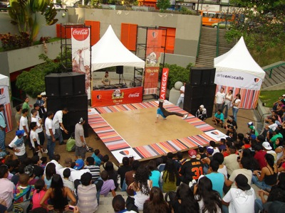 Cooltura 2009